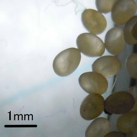 Eggs of Ctenolepisma villosa (day 19). Embryos can be seen.